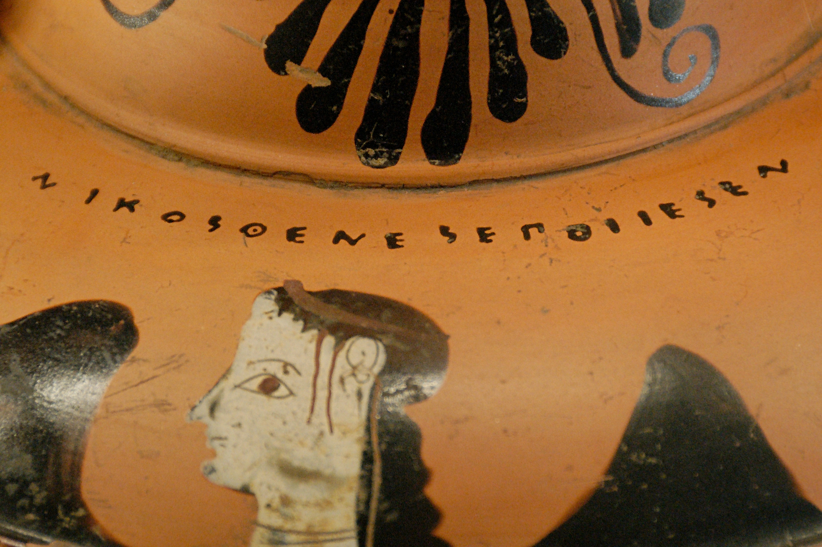 Nike between two youths, with Nikosthenes' signature (ΝΙΚΟΣΘΕΝΕΣ ΕΠΟΙΕΣΕΝ) on the neck. Side A from an Attic black-figured Nikosthenic amphora, ca. 530–520 BC. From Cerveteri (Caere).